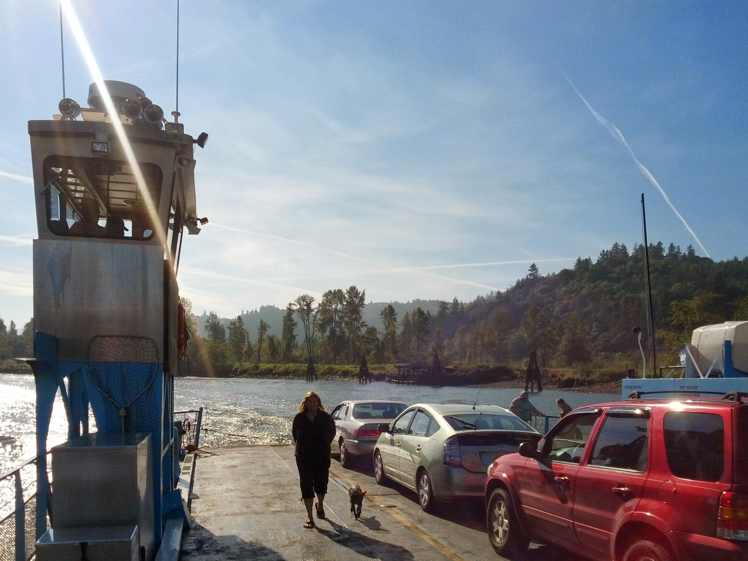 Passengers and cars on the Cathlamet–Westport (Wahkiakum County) ferry in 2013